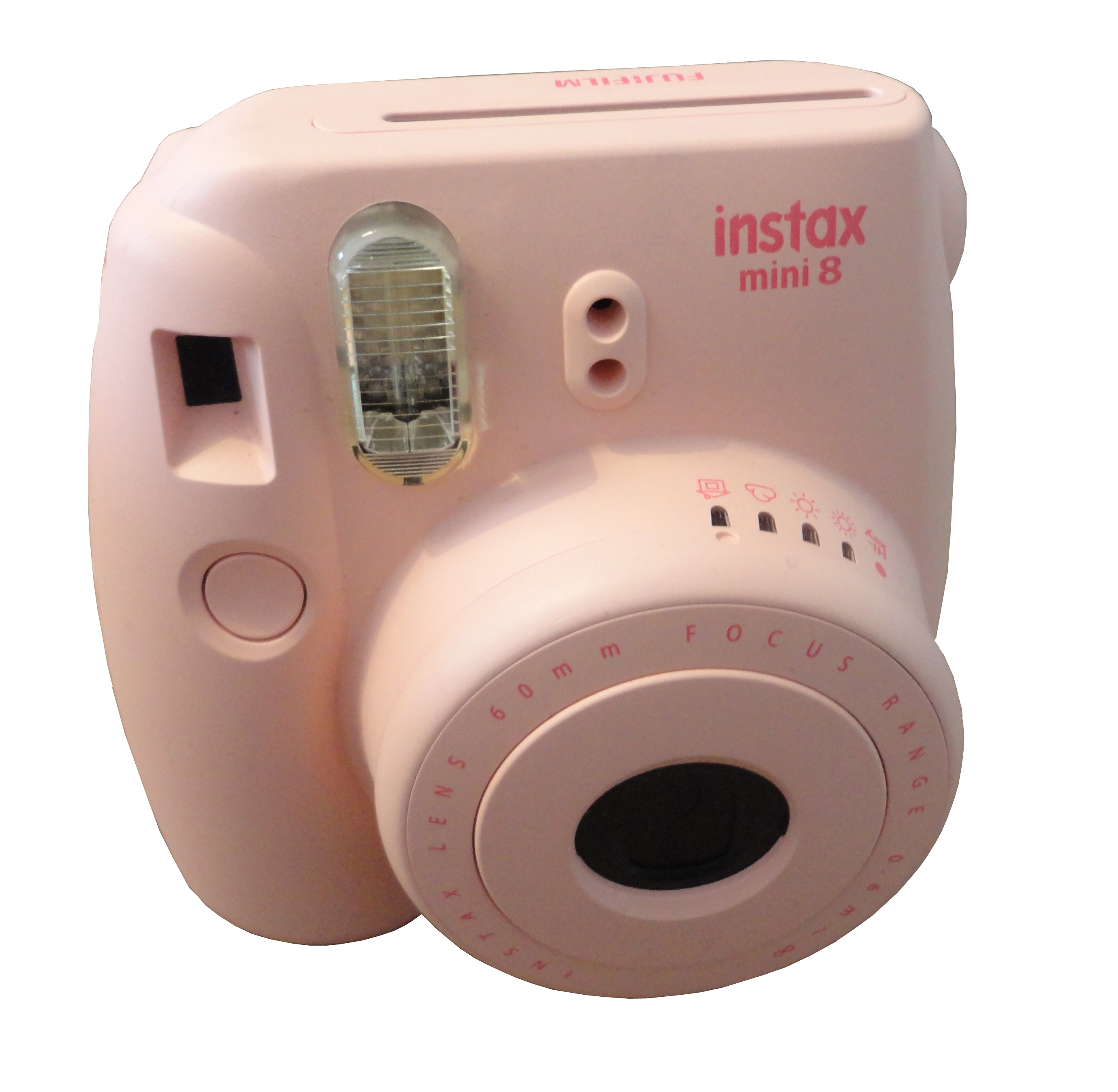 Instant camera, Fujifilm Instax Mini 8.